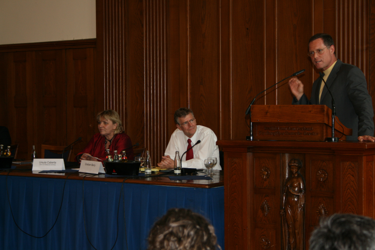 Jason Beghe speaks at Hamburg conference on Scientology